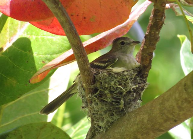 Woburn Bay, Grenada